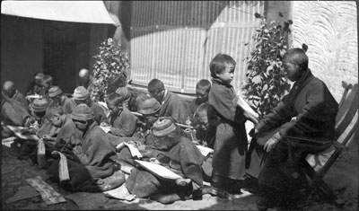 School at Lhasa, boy showing writing to teacher. Caption from Sir Charles Alfred Bell's The People of Tibet, p. 204: A small school in Lhasa - Boy showing writing to teacher. The backward boys write on broad, wooden slates; the more advanced on narrow strips of paper.